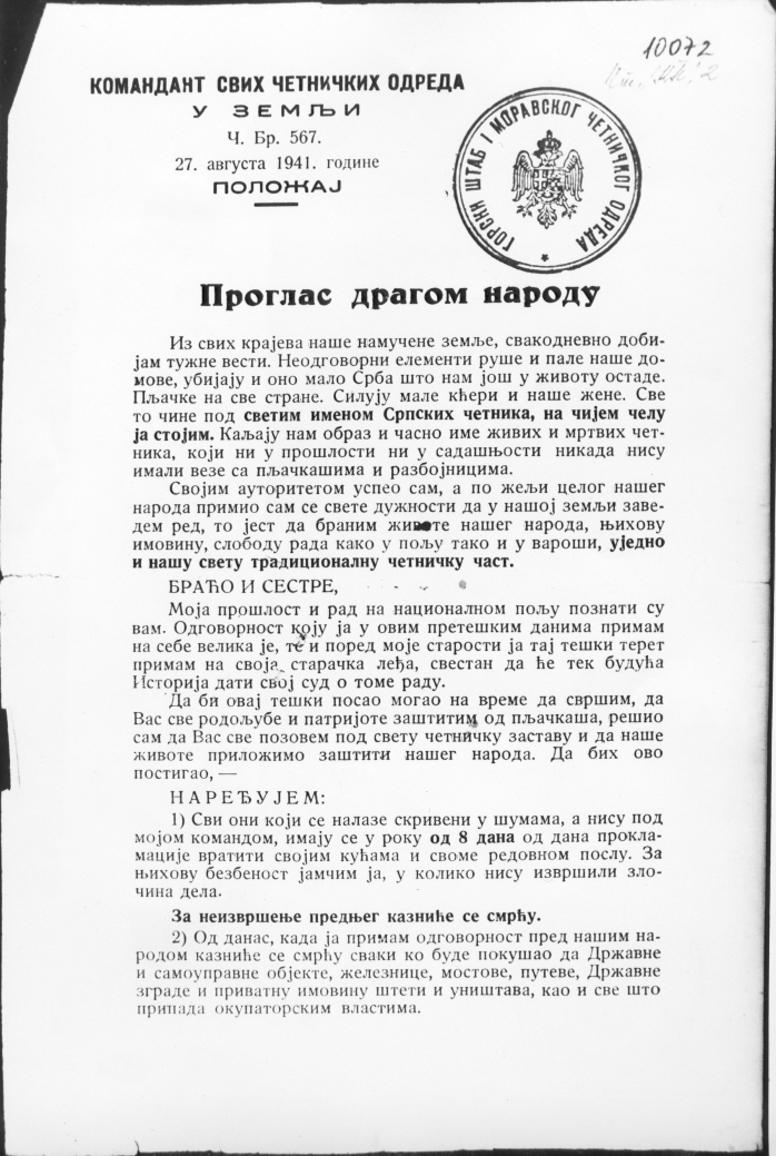 "Proclamation issued by Chetnik commander Kosta Milovanovic Pecanac which calls upon the Serb population to fight against the Communist partisan rebellion led by Josip Broz Tito. The proclamation, which bears the stamp of the Gorcki-Moravskog Chetnik Command, orders all those hiding in the forests, not under Chetnik command, to return to their homes within 8 days or face punishment by death. The document further states that anyone who has tried to damage state-owned or private property such as railroads, bridges, roads and buildings, or property belonging to the occupying power, will be punished by death."